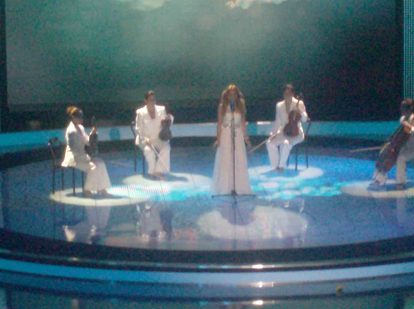 Festival RTP da Canção 2010 1st semifinal